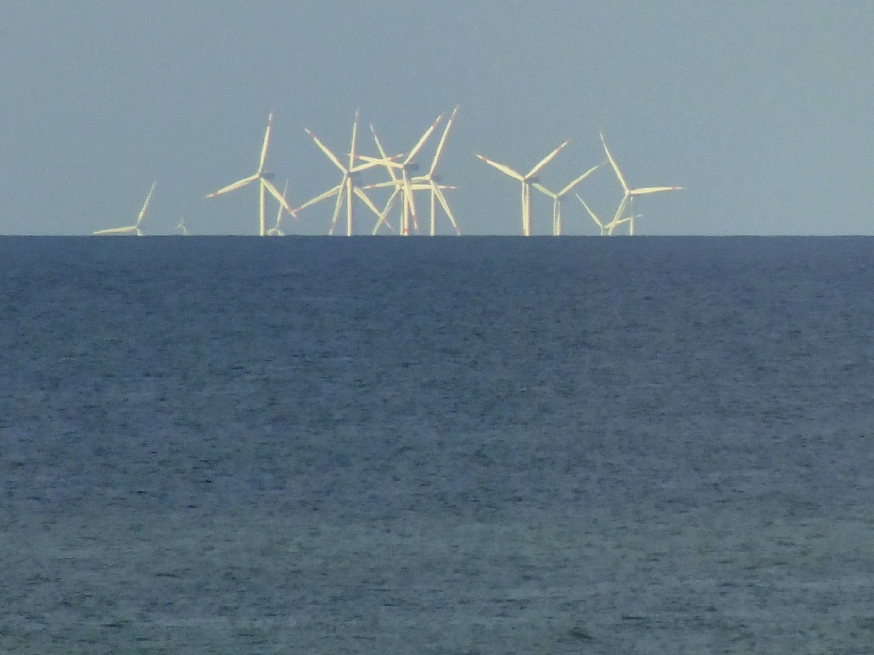 This picture of the offshore windpark in front of the Belgian coast perfectly shows the earth curvature.